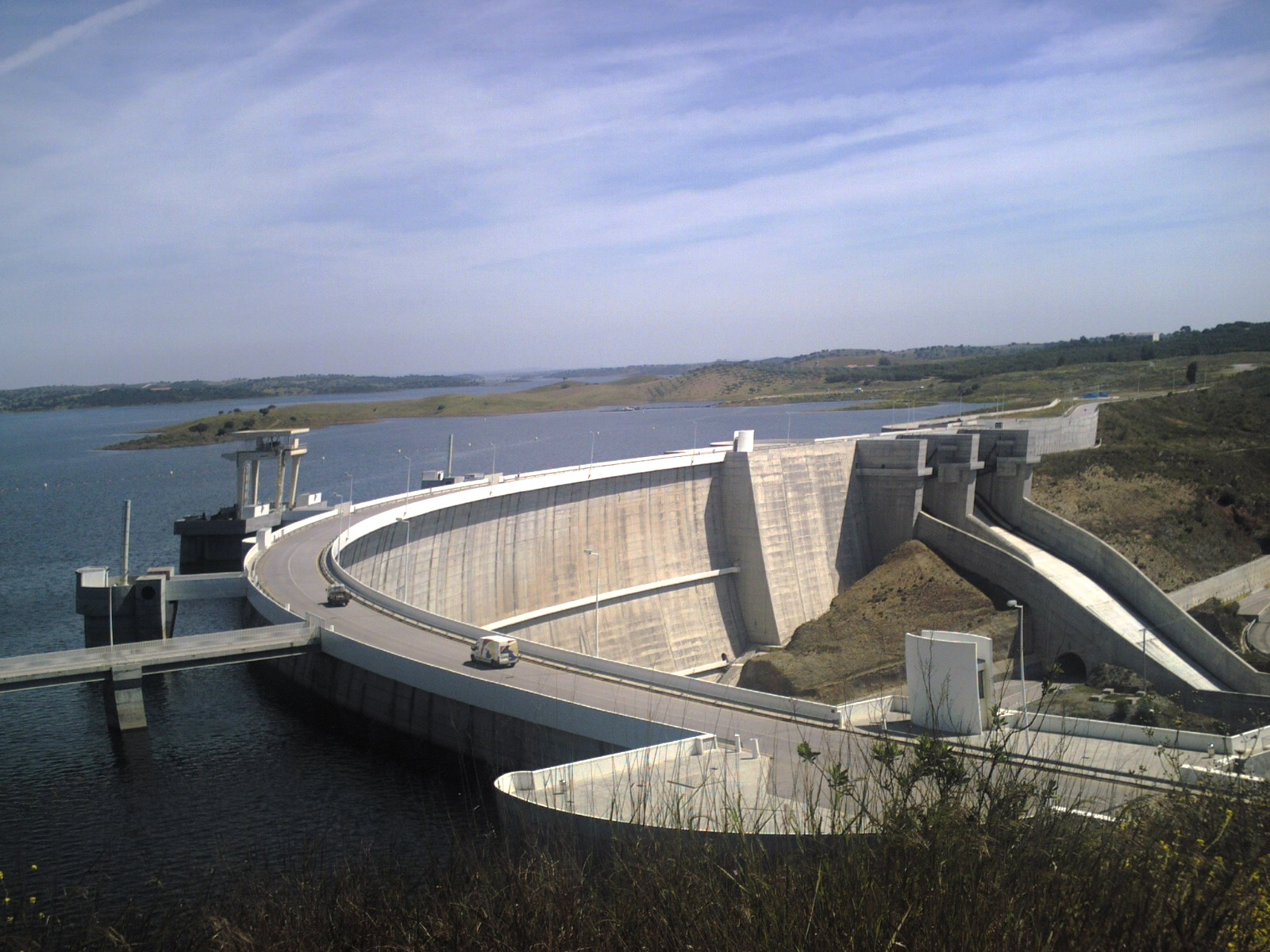 Alqueva dam on the Guadiana River, Portugal